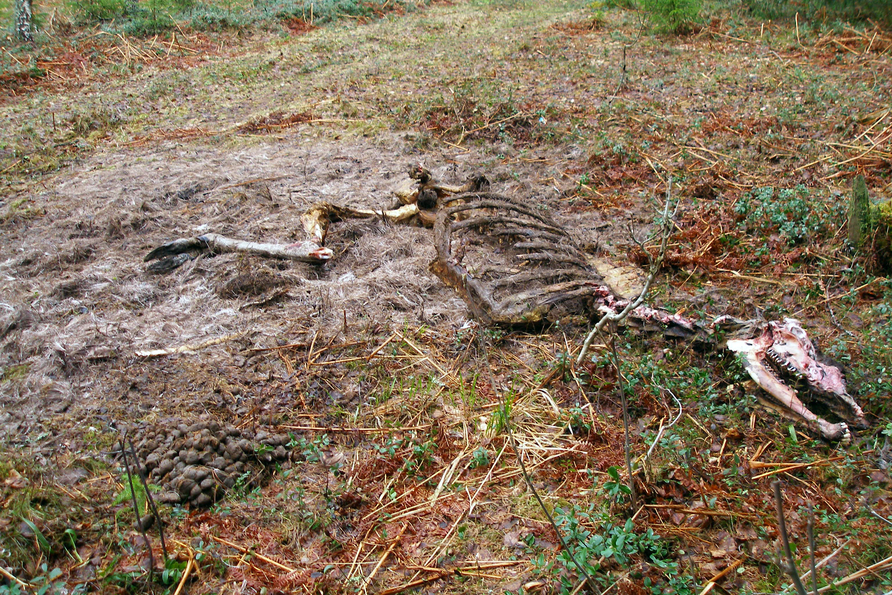 Carcasse of a moose (Alces alces), killed most probably by wolves in the previous winter. Found in Põhja-Kõrvemaa Nature Reserve, Estonia.